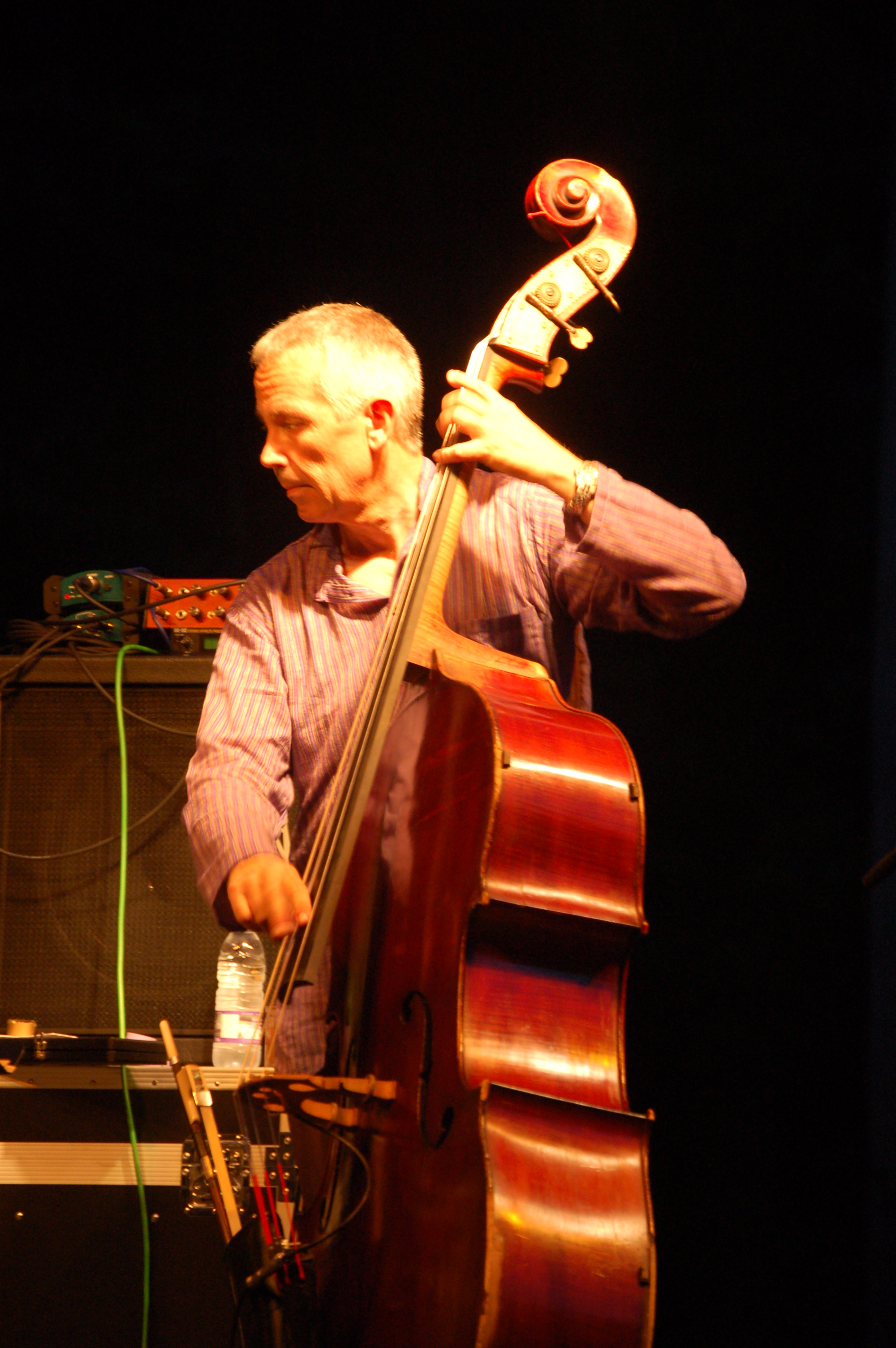 Baldo Martínez in concert (pazo de Lourizán)